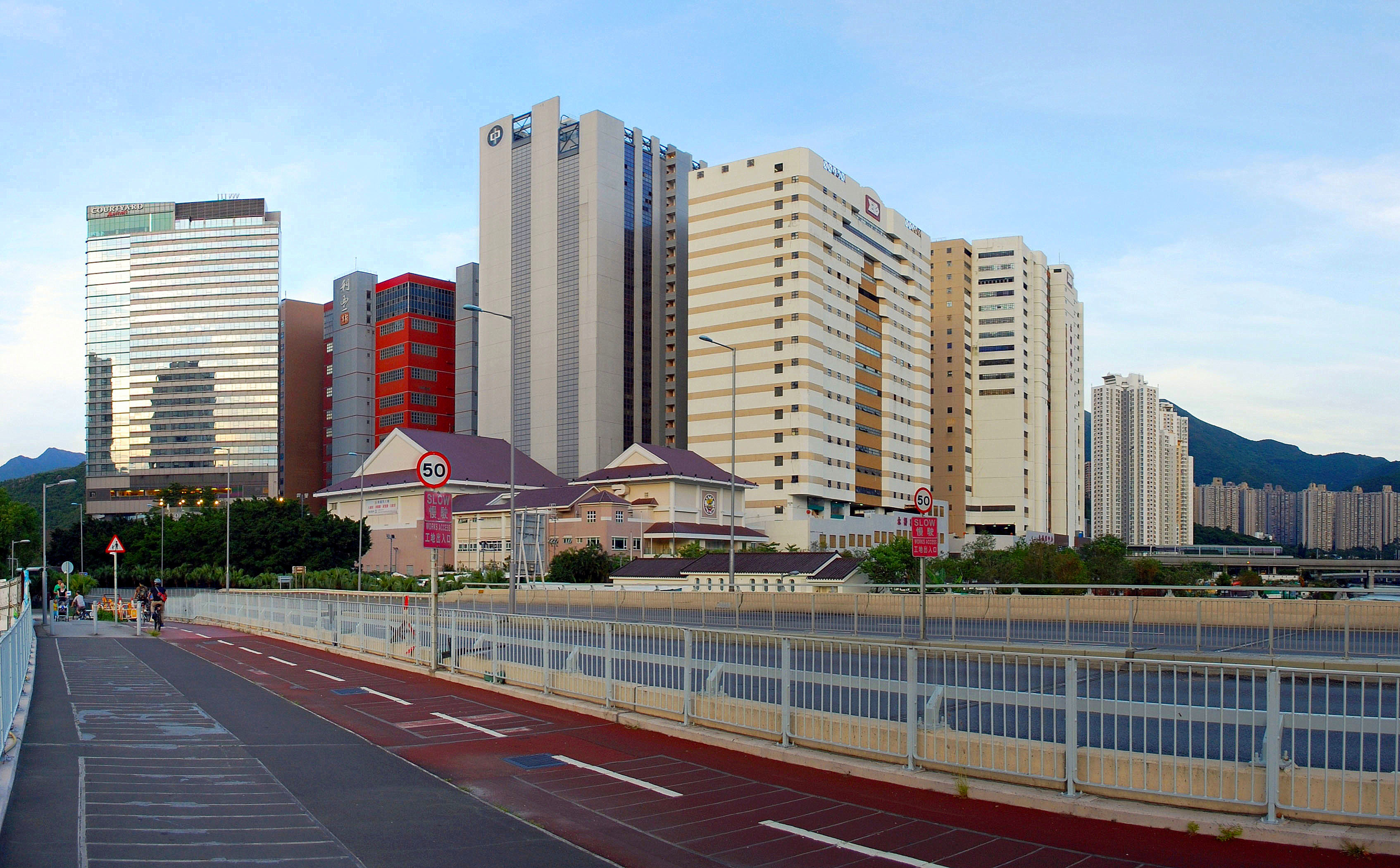 Skyline of Shek Mun, Sha Tin, Hong Kong, as photographed from the Tai Chung Kiu Road bridge over the nullah.